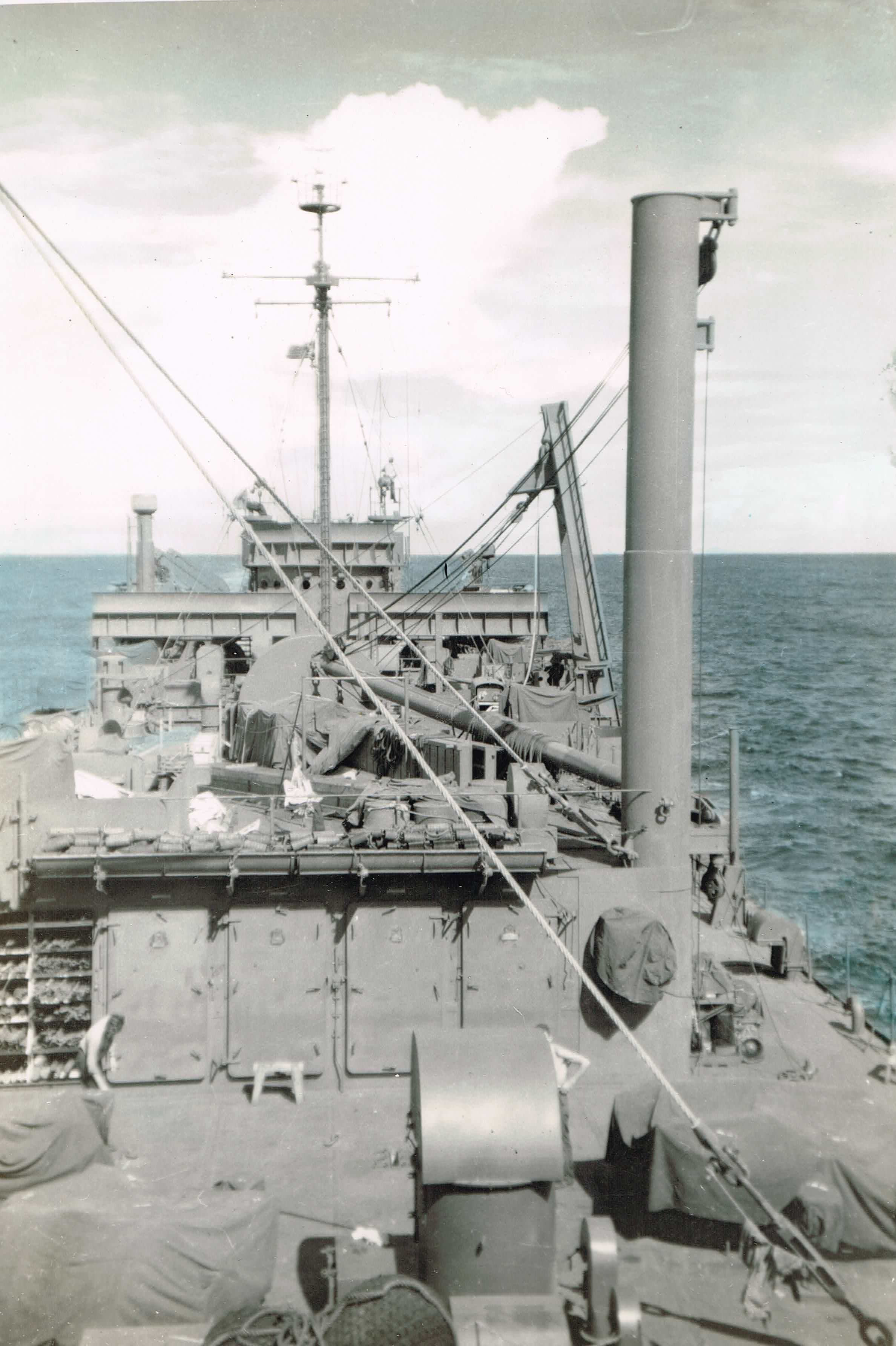 View from the conning tower of the USS Typhon; photo taken by my grandfather, George A. Groeschl